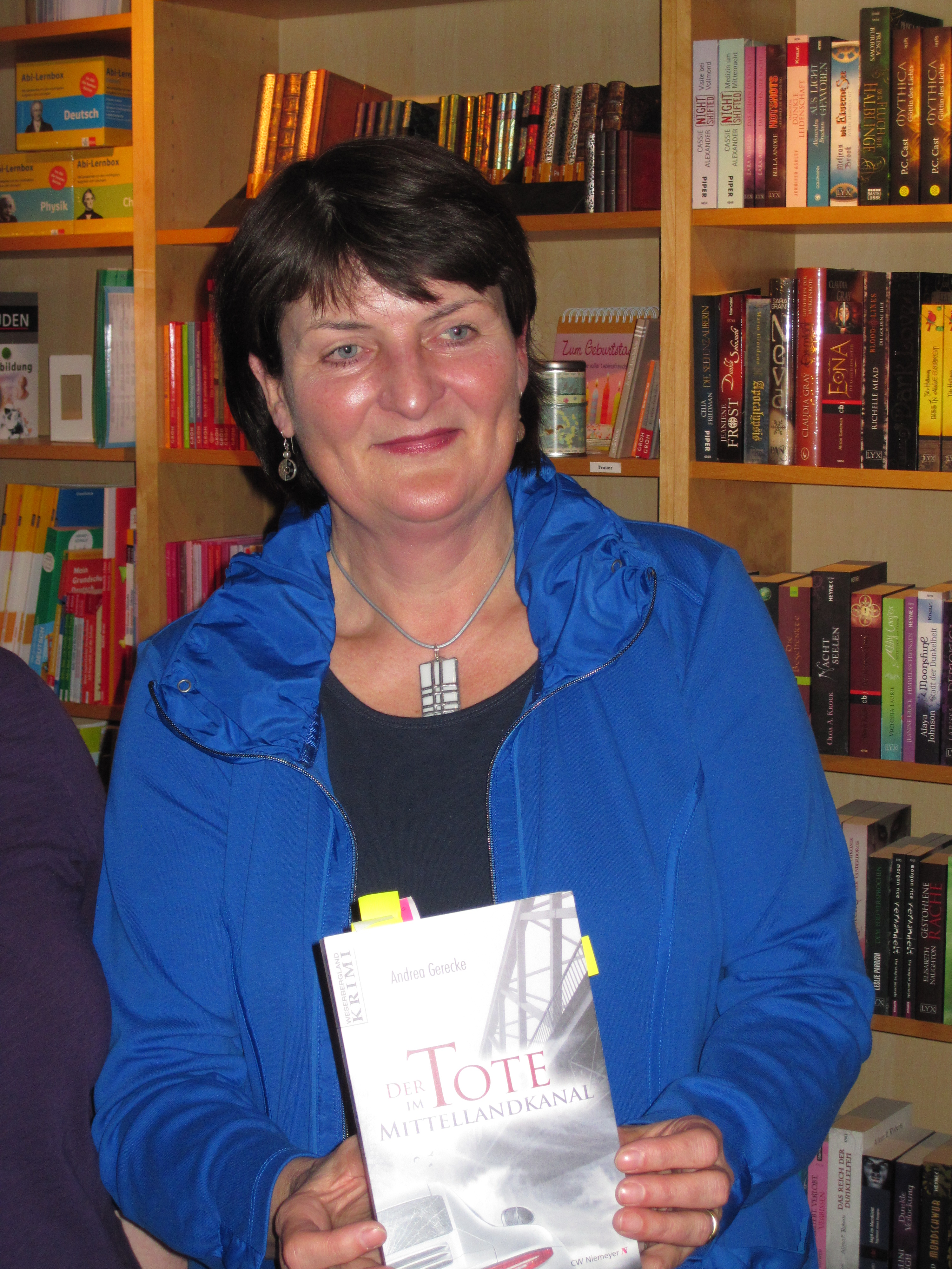 German crime fiction author Andrea Gerecke at a reading in Hüllhorst, Germany